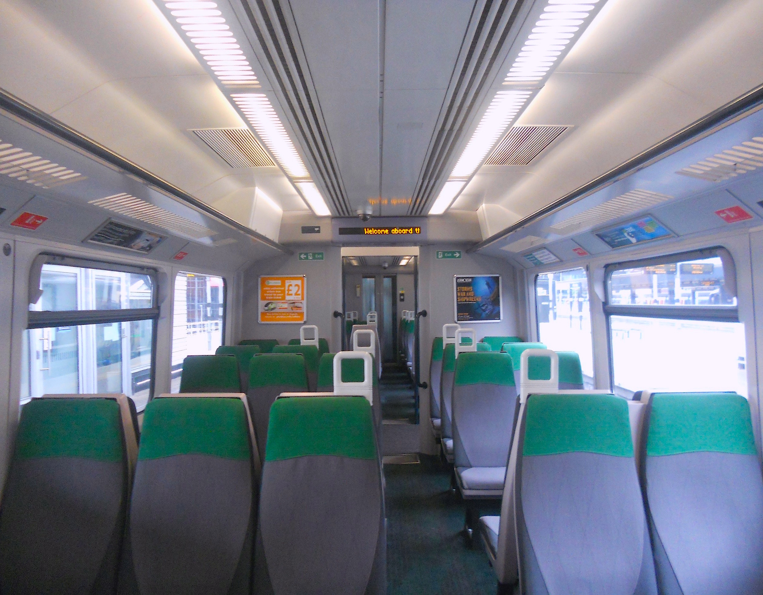 The interior of the refurbished Standard Class accommodation from GWR Class 166